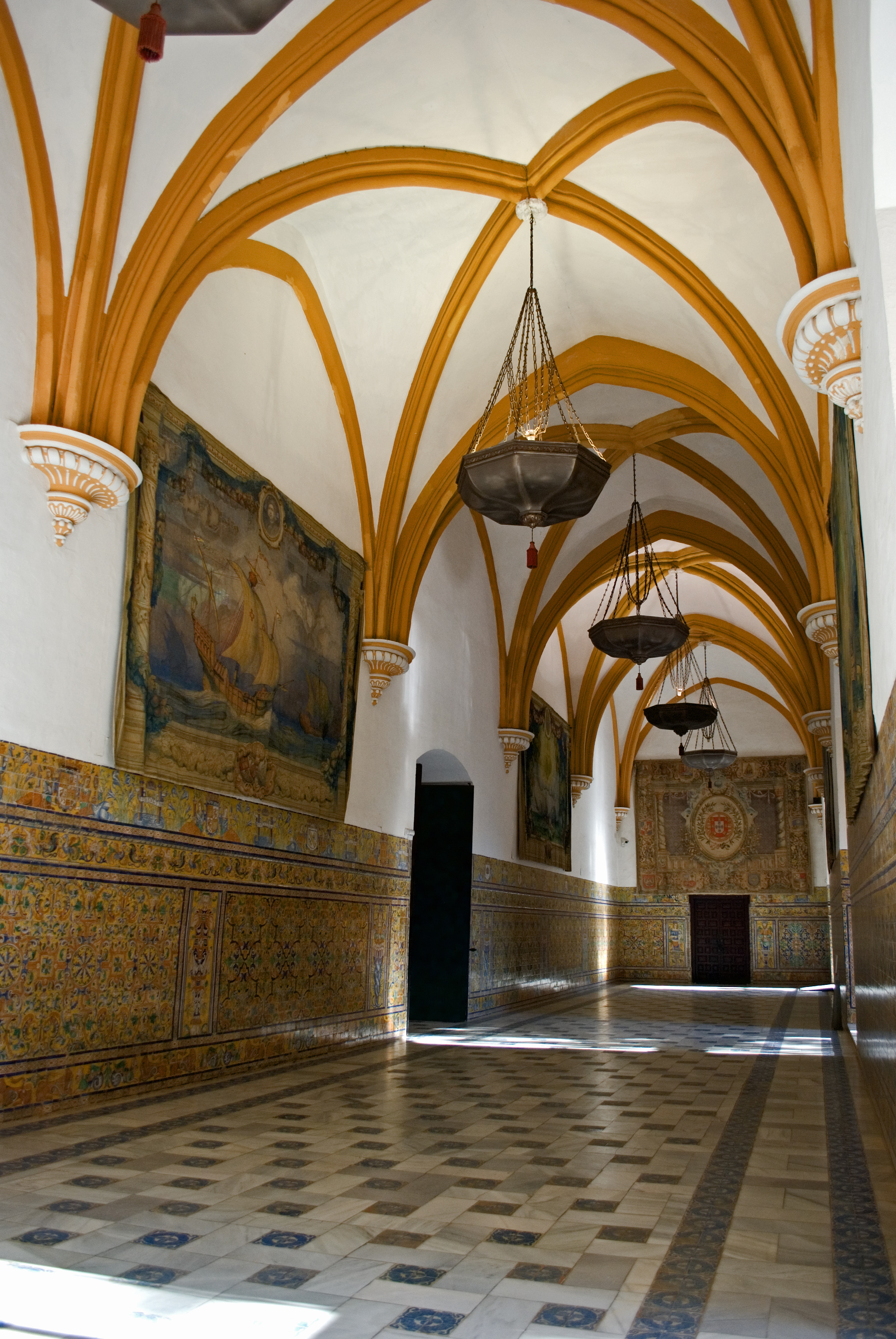 Alcázar of Seville